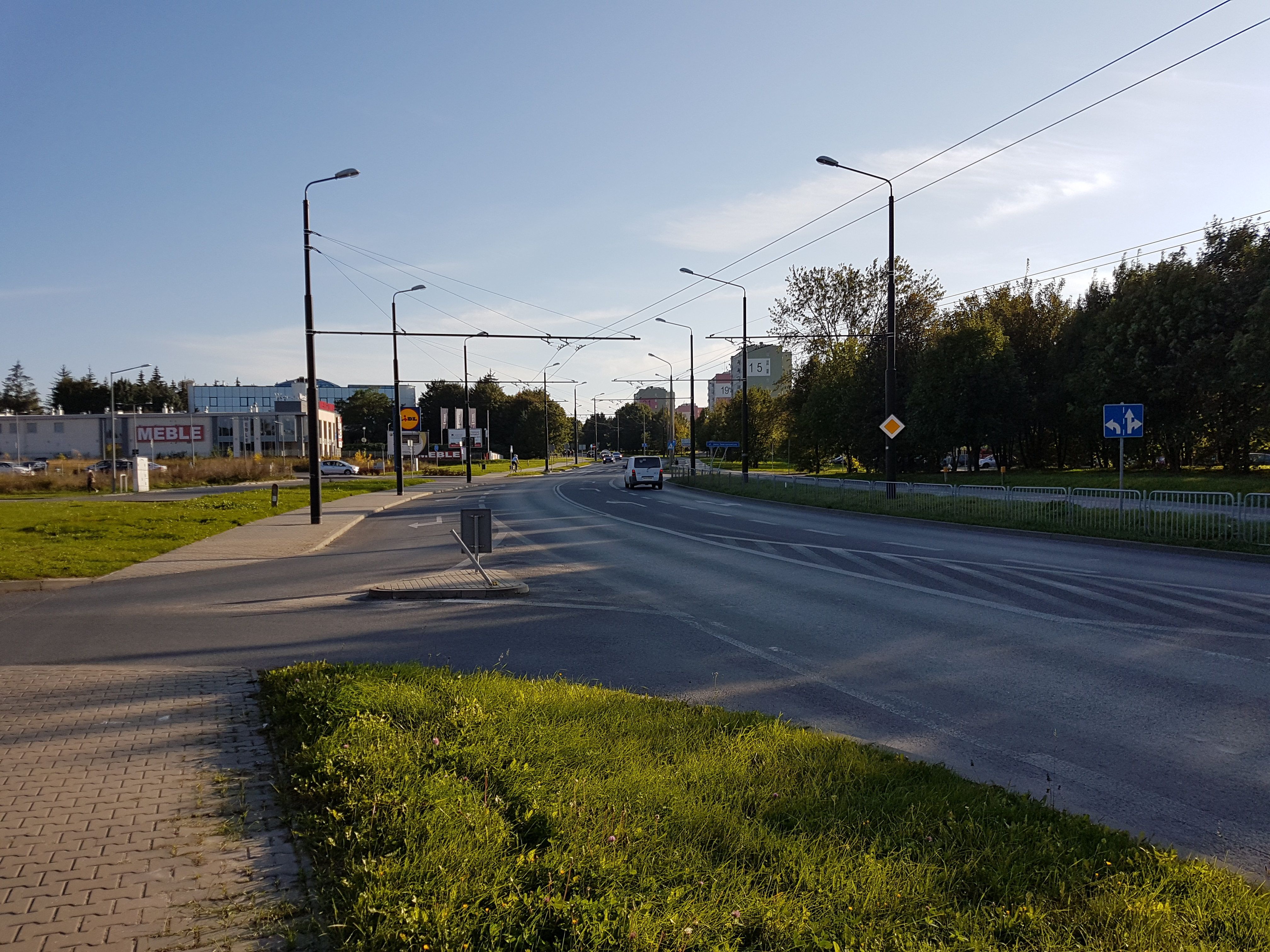 Diamentowa Street in Lublin